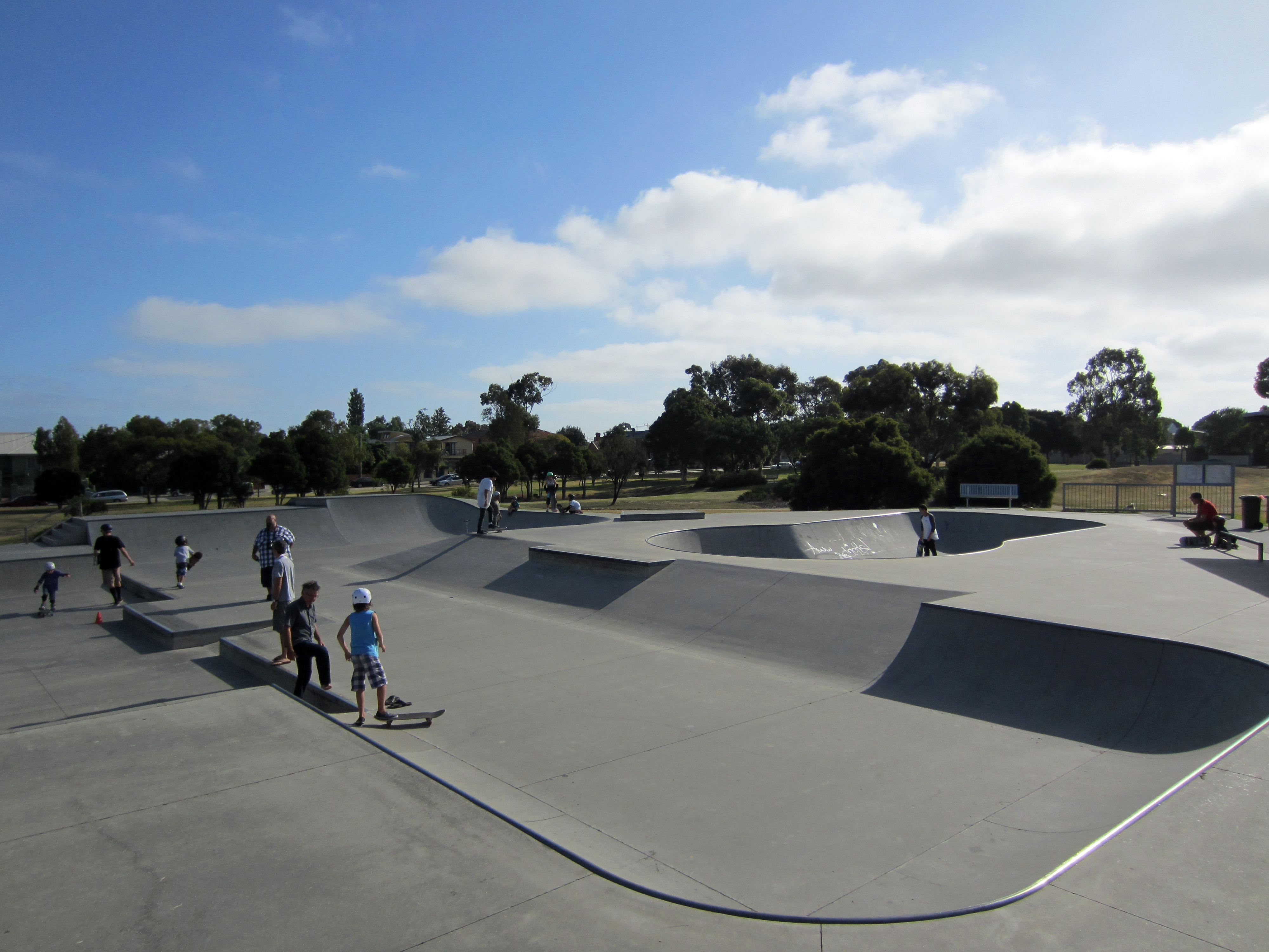 Newport Skate Park, Newport, Victoria